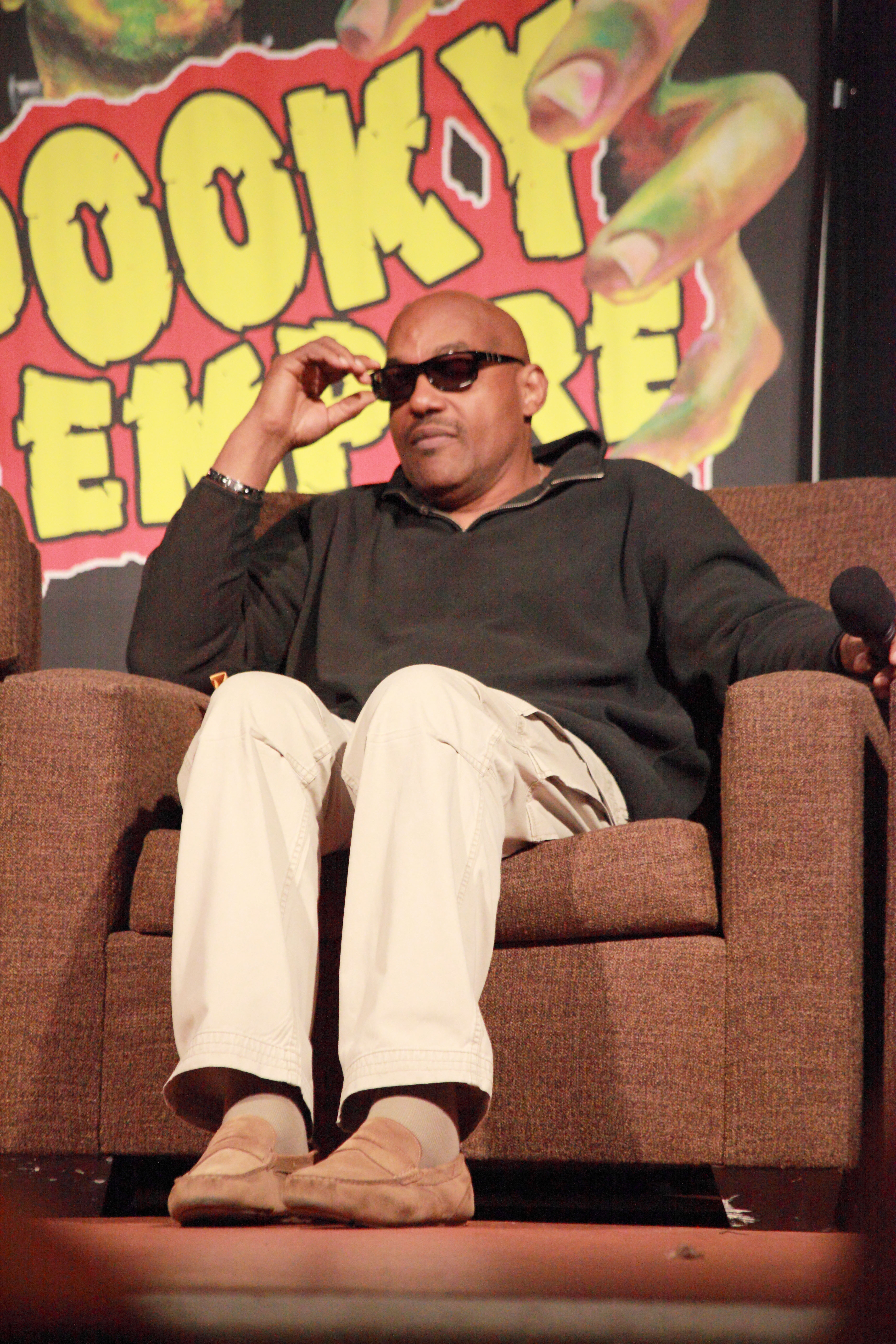 Ken Foree from Rob Zombie's "Halloween" at Spooky Empire's Ultimate Horror Weekend 2014 held in Orlando, Florida.